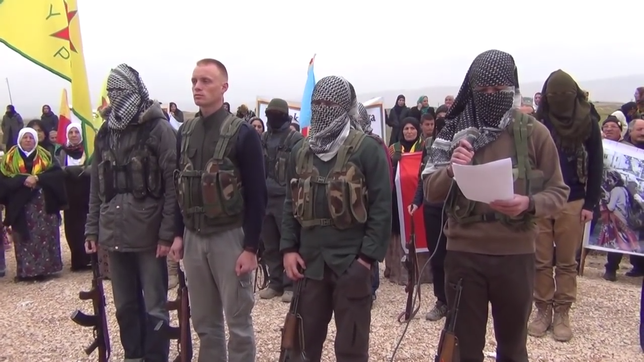 German, French, and Spanish fighters of the People's Protection Units in northern Syria call for people to join the Kurdish-Turkish conflict in Turkey.